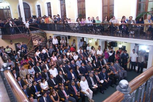 evento